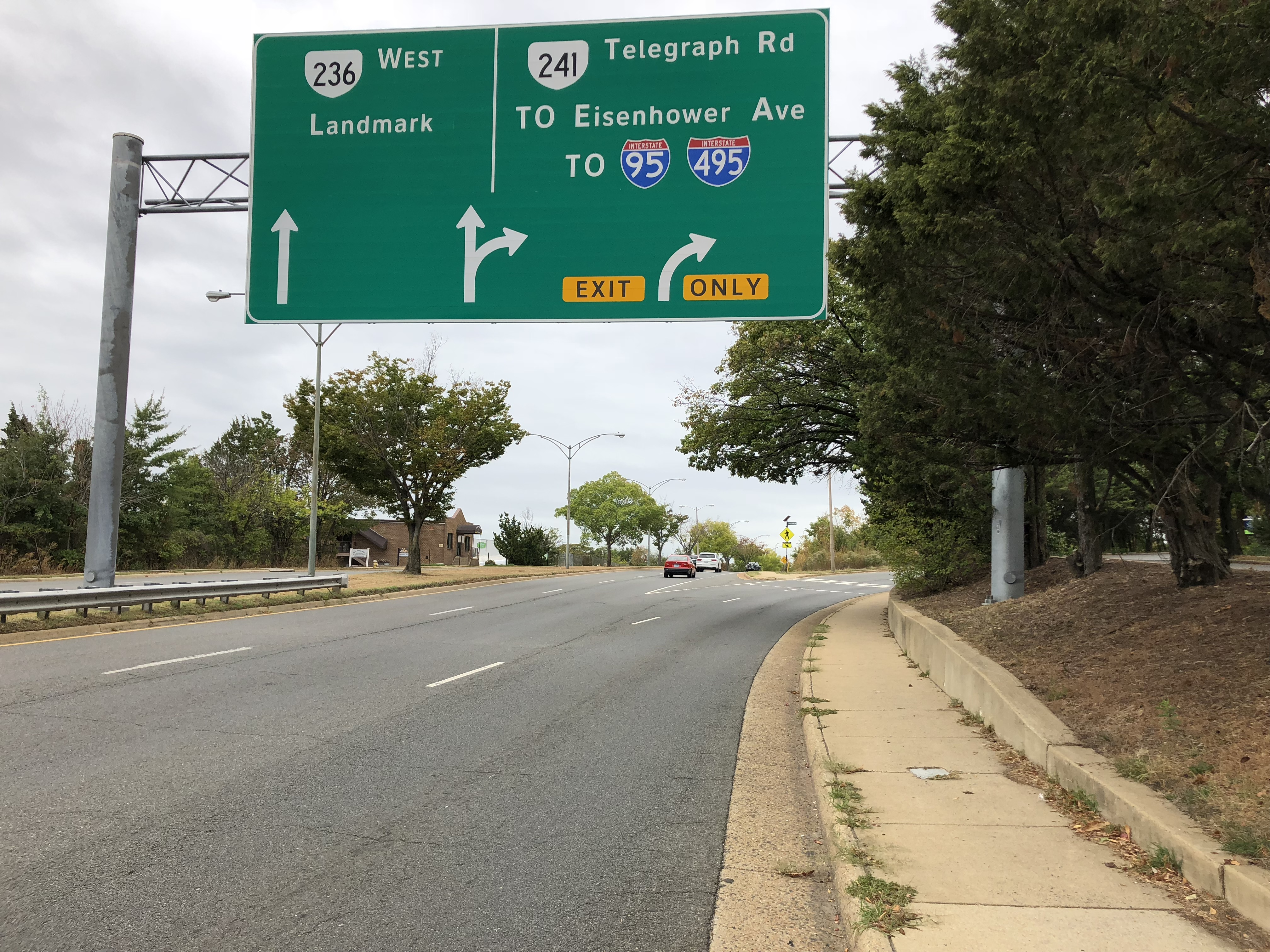 View west along Virginia State Route 236 (Duke Street) at the north end of Virginia State Route 241 (Telegraph Road) in Alexandria, Virginia